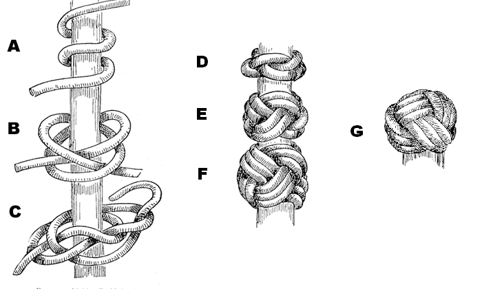 Making of Turks head knots with one braid (A-C). Turk's Head knots with one (D), two (E) or three (F) braids, completed. The same type of knot tightened at the end of a rope is called a Turk's cap (G).